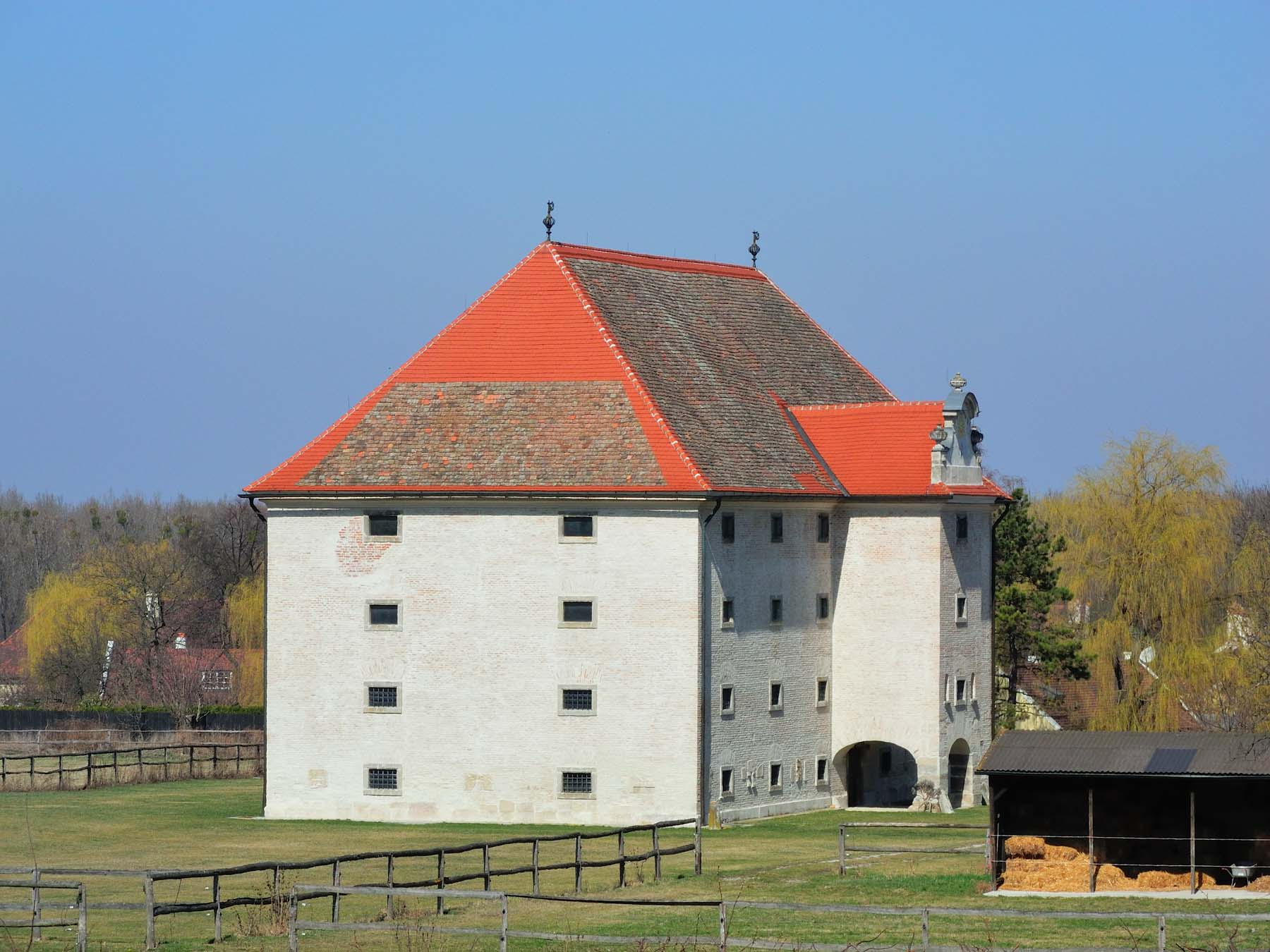 Granary in Petronell-Carnuntum, Lower Austria, Austria